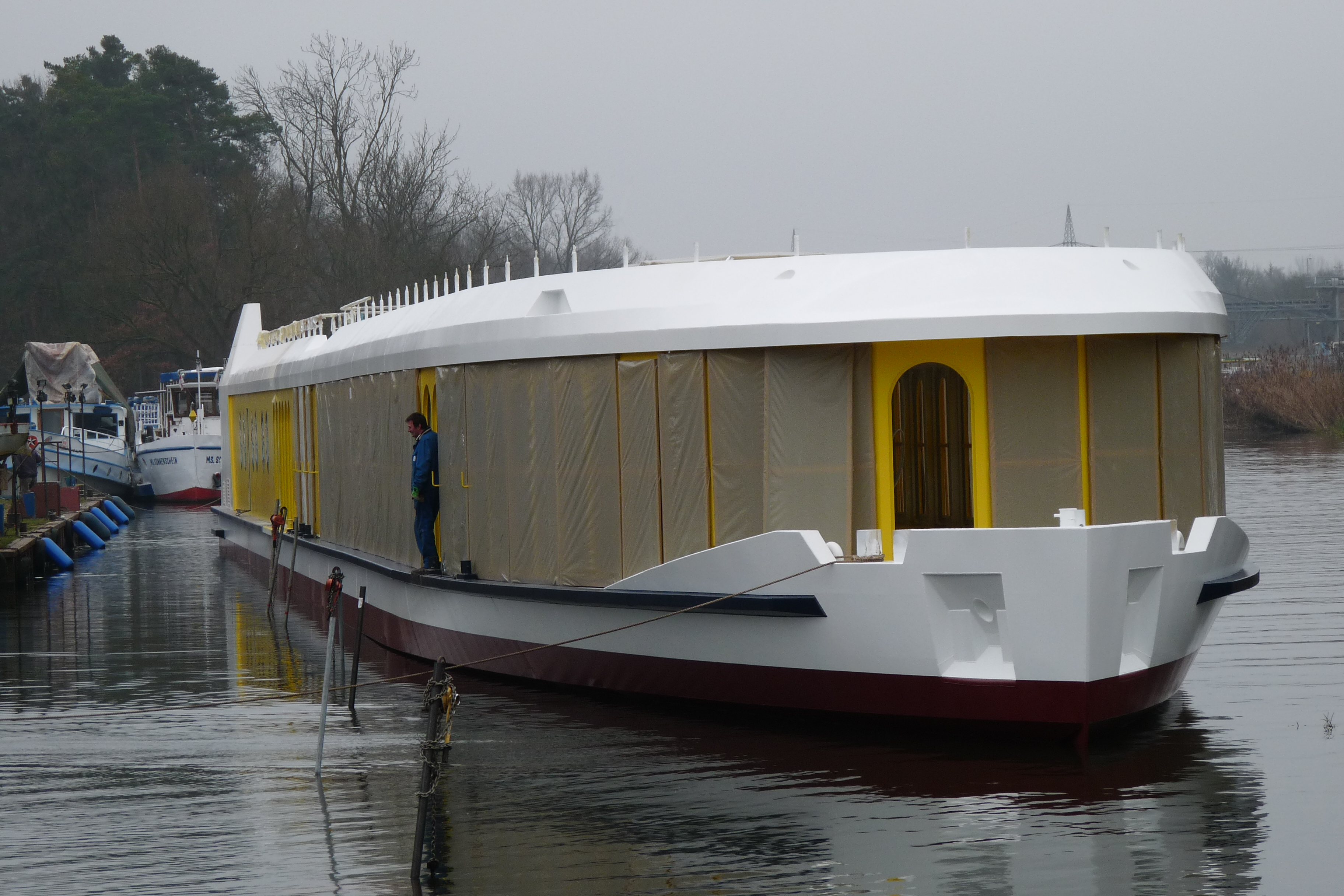 The new builded passenger ship named Sanssouci of the Weiße Flotte Potsdam (White Fleet) shortly after launched.